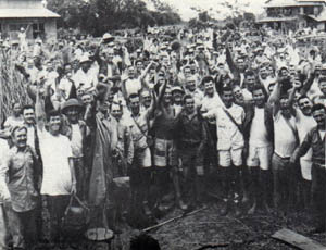 Former Cabanatuan POWs celebrate after successful raid on prison camp.